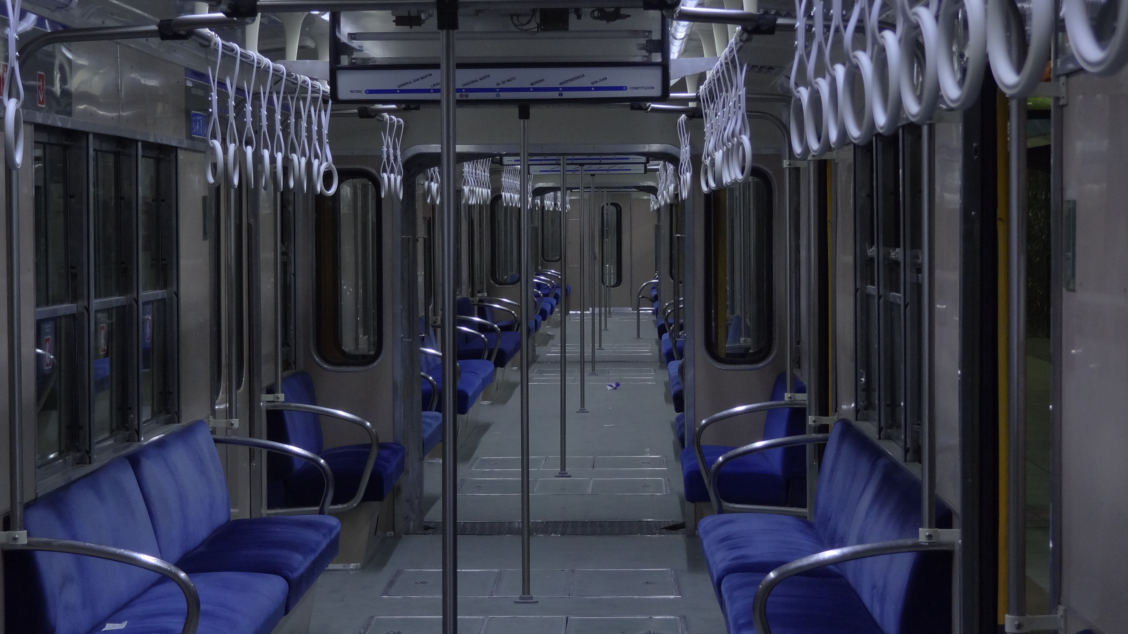 Refurbished Nagoya 300 Series rolling stock on Line C of the Buenos Aires Underground.